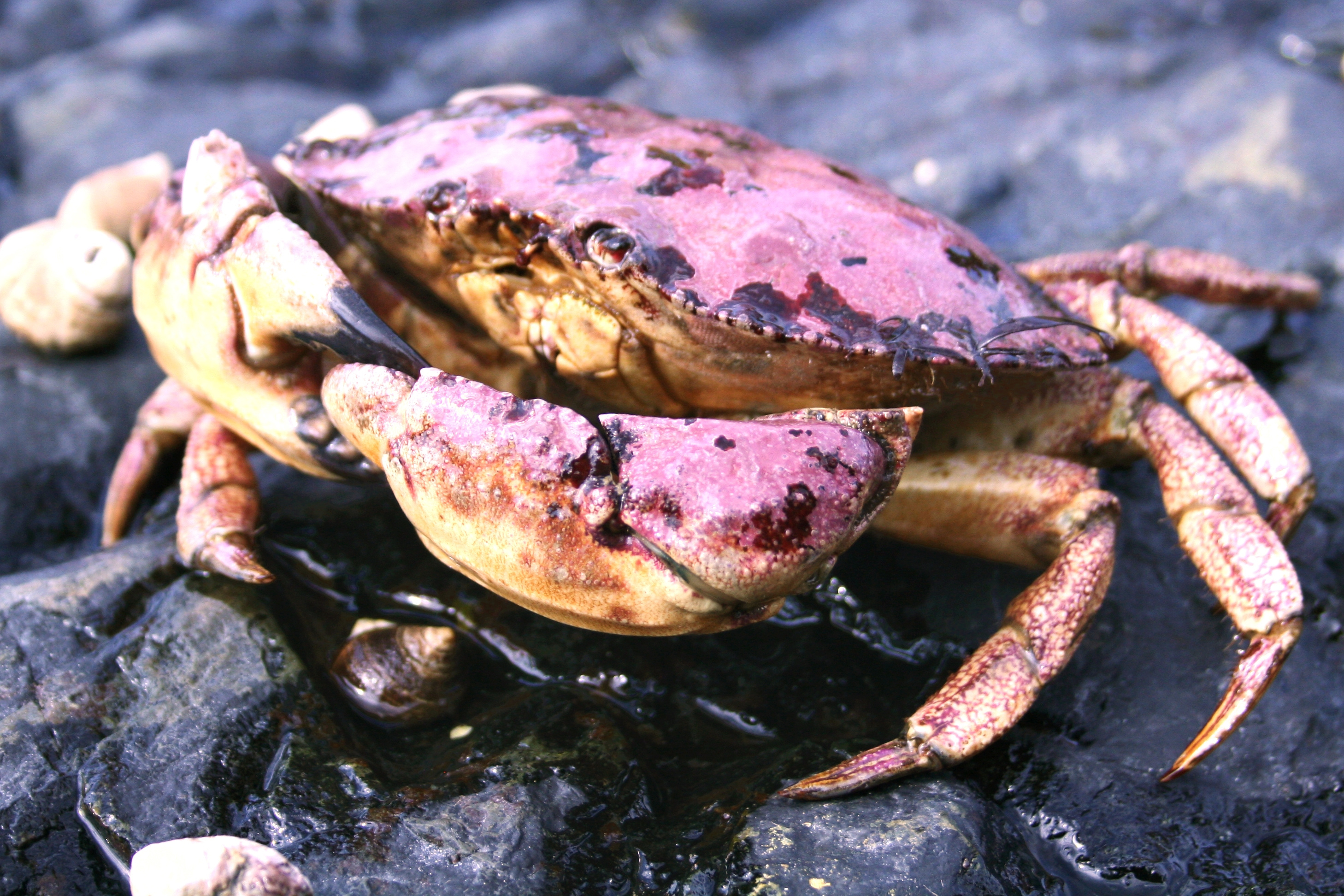 Jonah crab in Acadia National Park, Maine, United States.